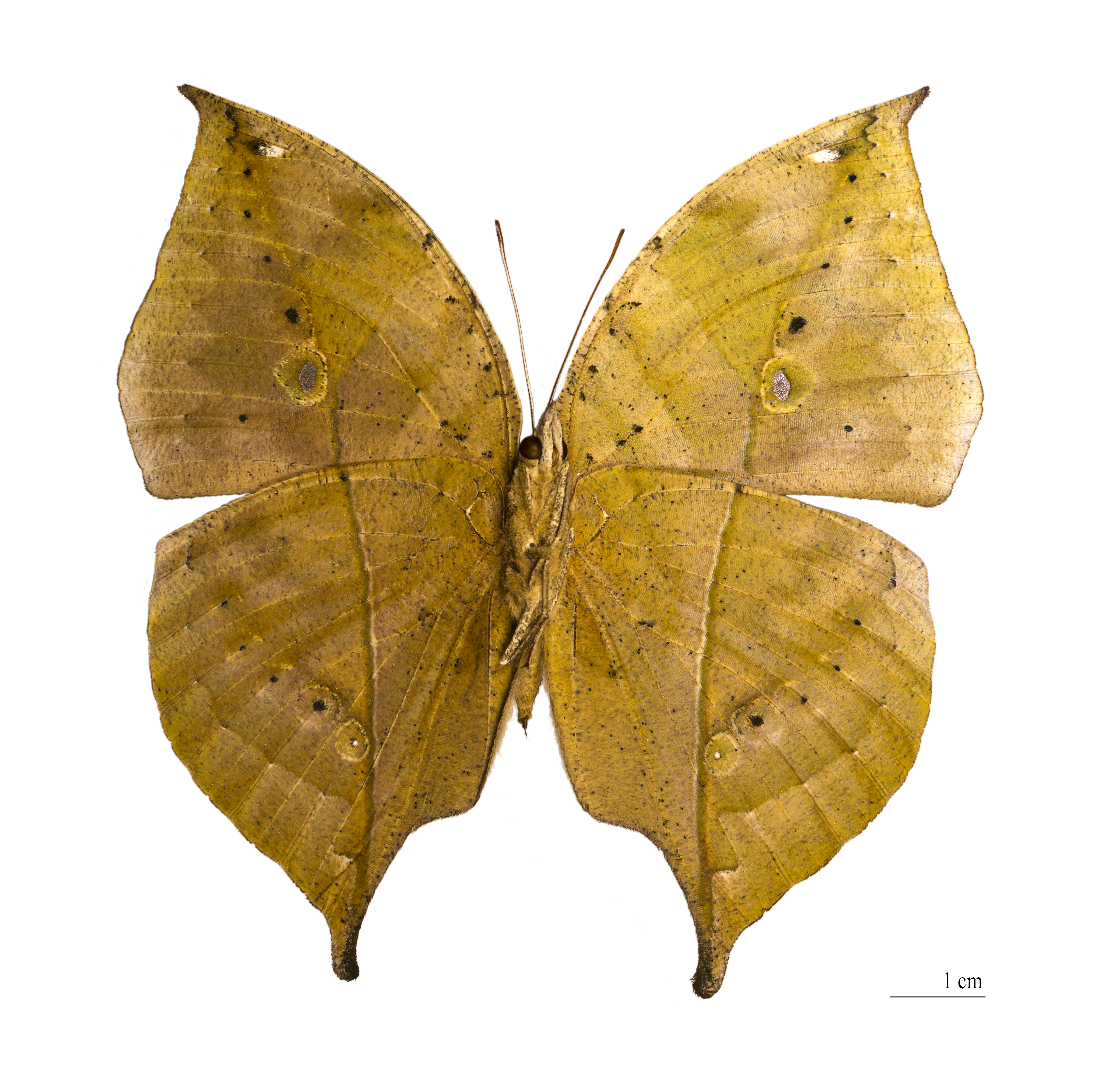 Female specimen - Ventral side Locality: Barat, Jaca, Indonesia